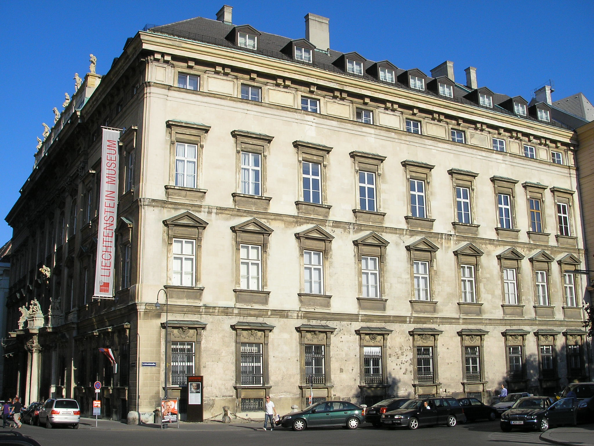 Image of the Palais Liechtenstein located at Bankgasse in Vienna's first district Innere Stadt. The palace is also known as the Stadtpalais Liechtenstein (city-palace) in order to differentiate between the other Liechtenstein Palace in Rossau.